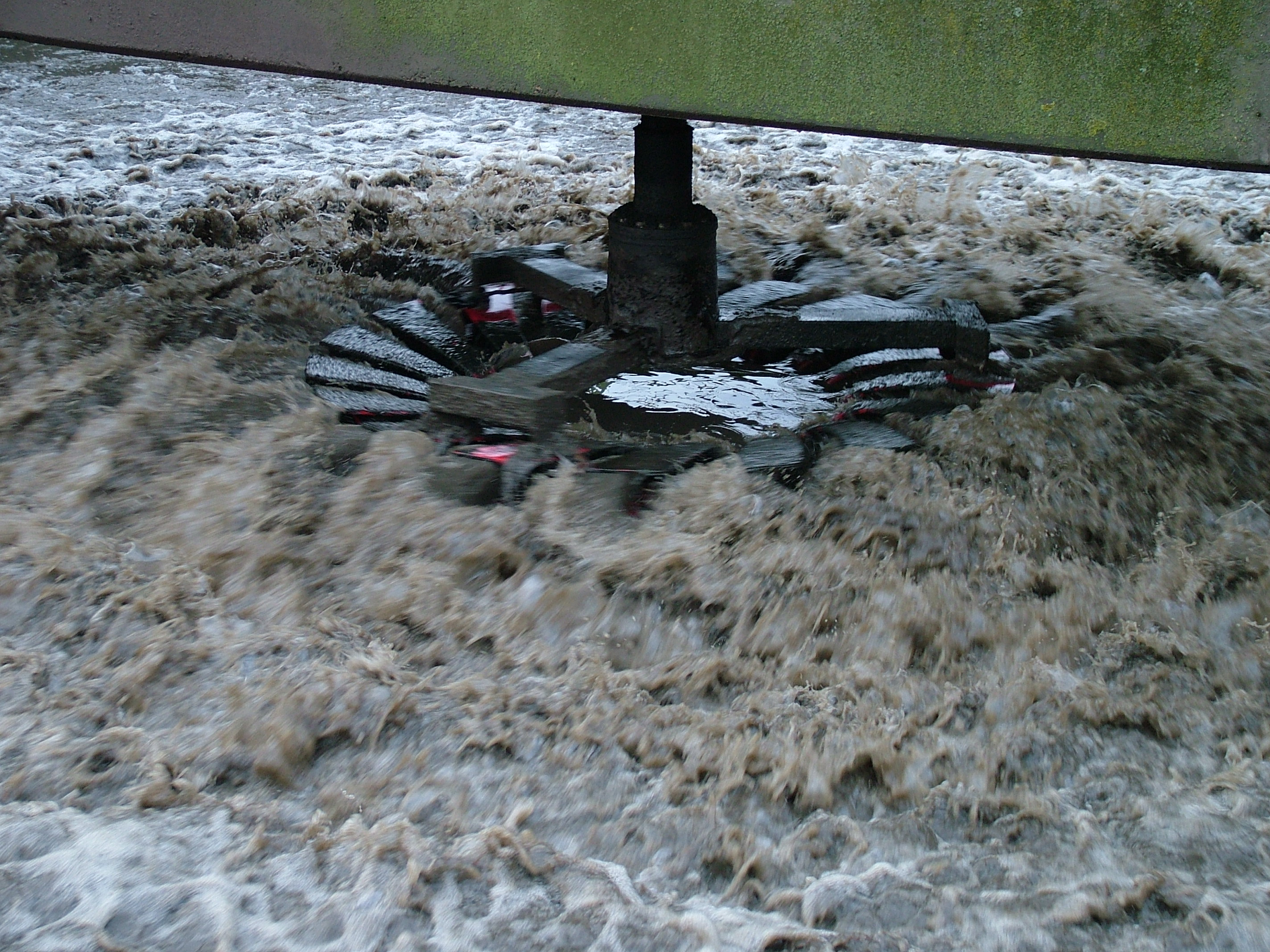 Picture of a low speed surface aerator, a common type of aerator in a waste water treatment plant